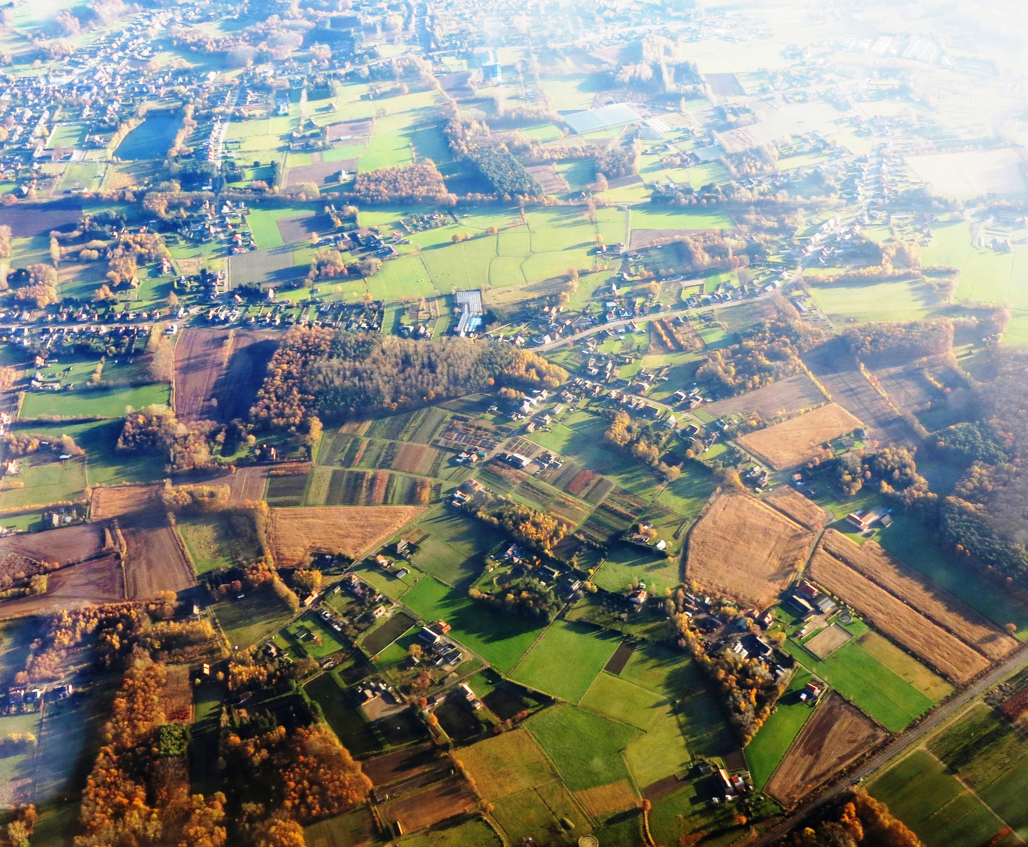 Aerial view from the (south)west towards (north)east, over the Hageland region, in southeastern Antwerpen province - north Belgium.